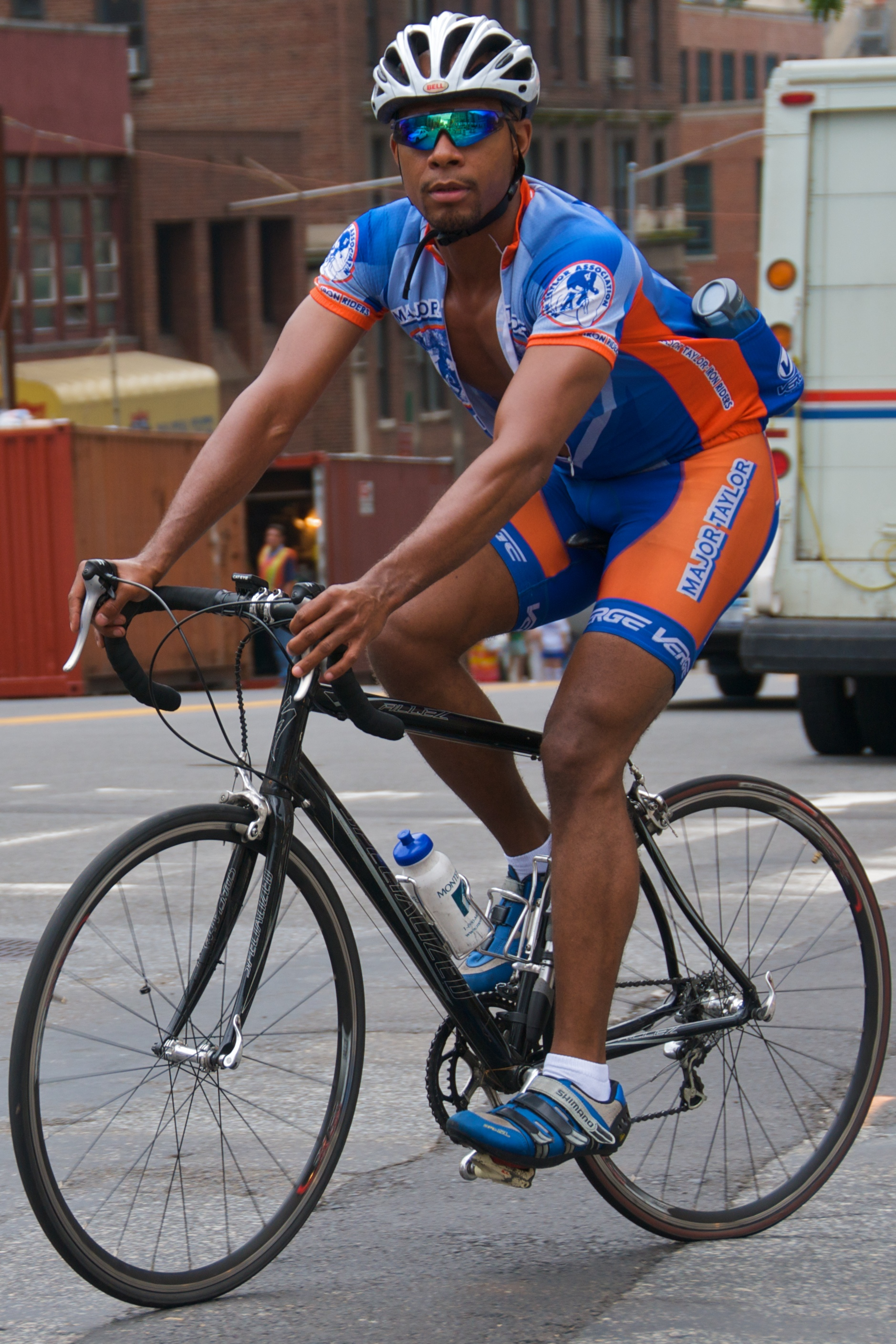 A guy on a bike wearing spandex